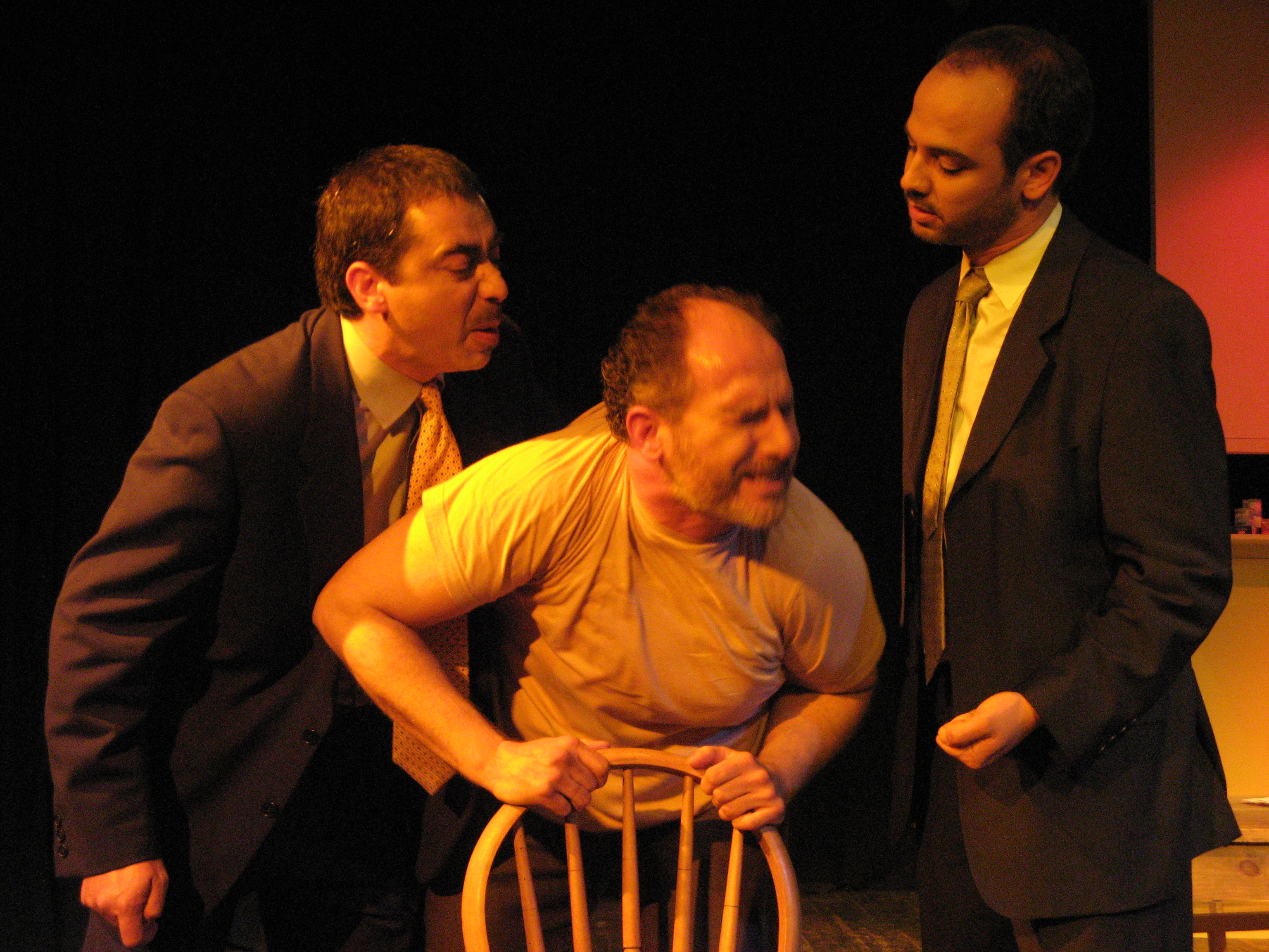 Theofilos association Birthday Party stage play